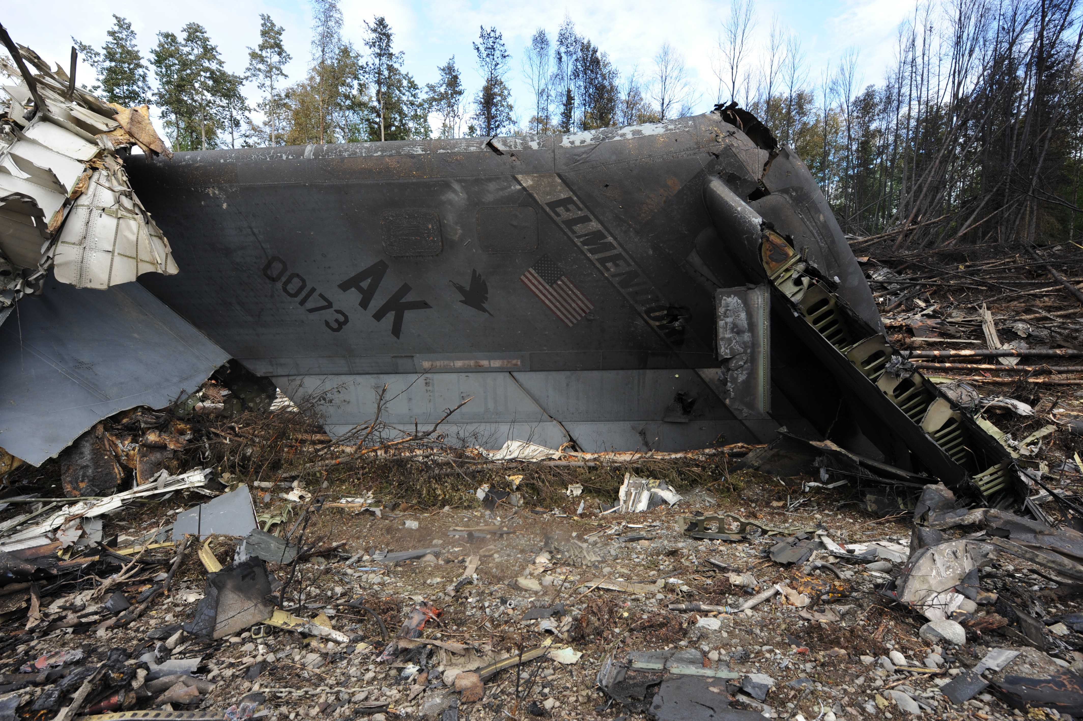 JOINT BASE ELMENDORF-RICHARDSON, Alaska – The wreckage of a 3rd Wing C-17 Globemaster III , a cargo aircraft, that crashed shortly after take-off at about 6:14 p.m. (Alaska time) during a local training mission July 28, 2010. The four crew members on board were killed in the crash; Majors Michael Freyholtz and Aaron Malone, pilots assigned to the Alaska Air National Guard’s 249th Airlift Squadron, Capt. Jeffrey Hill, a pilot assigned to Elmendorf’s 517th Airlift Squadron, and Master Sgt. Thomas Cicardo, 249th Airlift Squadron loadmaster. The Safety Investigation Board members have been assigned and will be fully assembled by Aug 2. The investigation is on-going and will continue for an undetermined amount of time. Orange flags mark points of interest for the investigators.